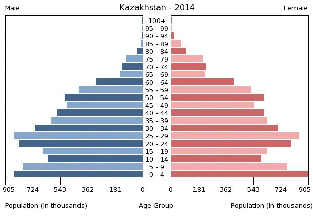 A plot of the population pyramid of Kazakhstan in 2014